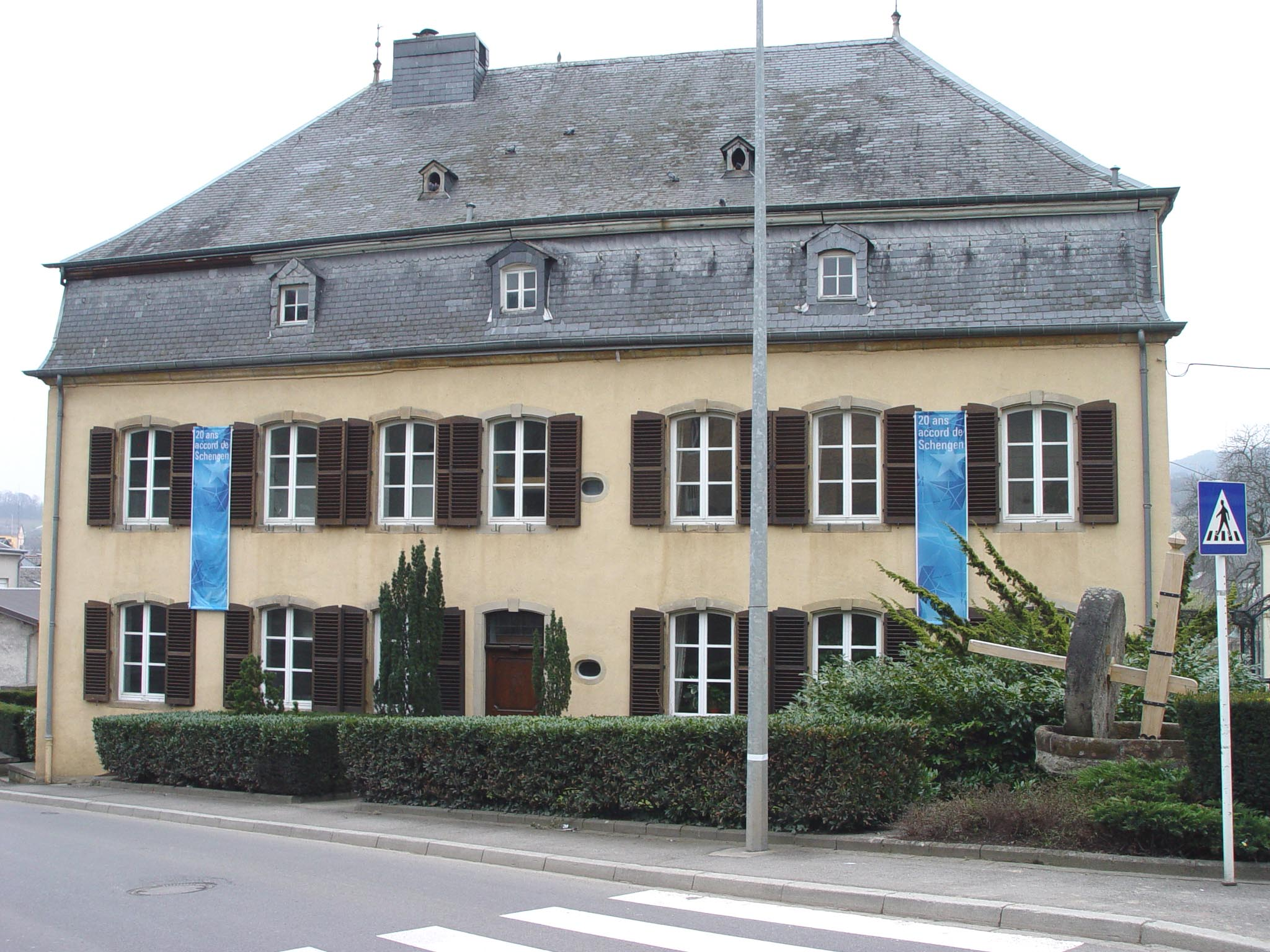 Kochhaus in Schengen